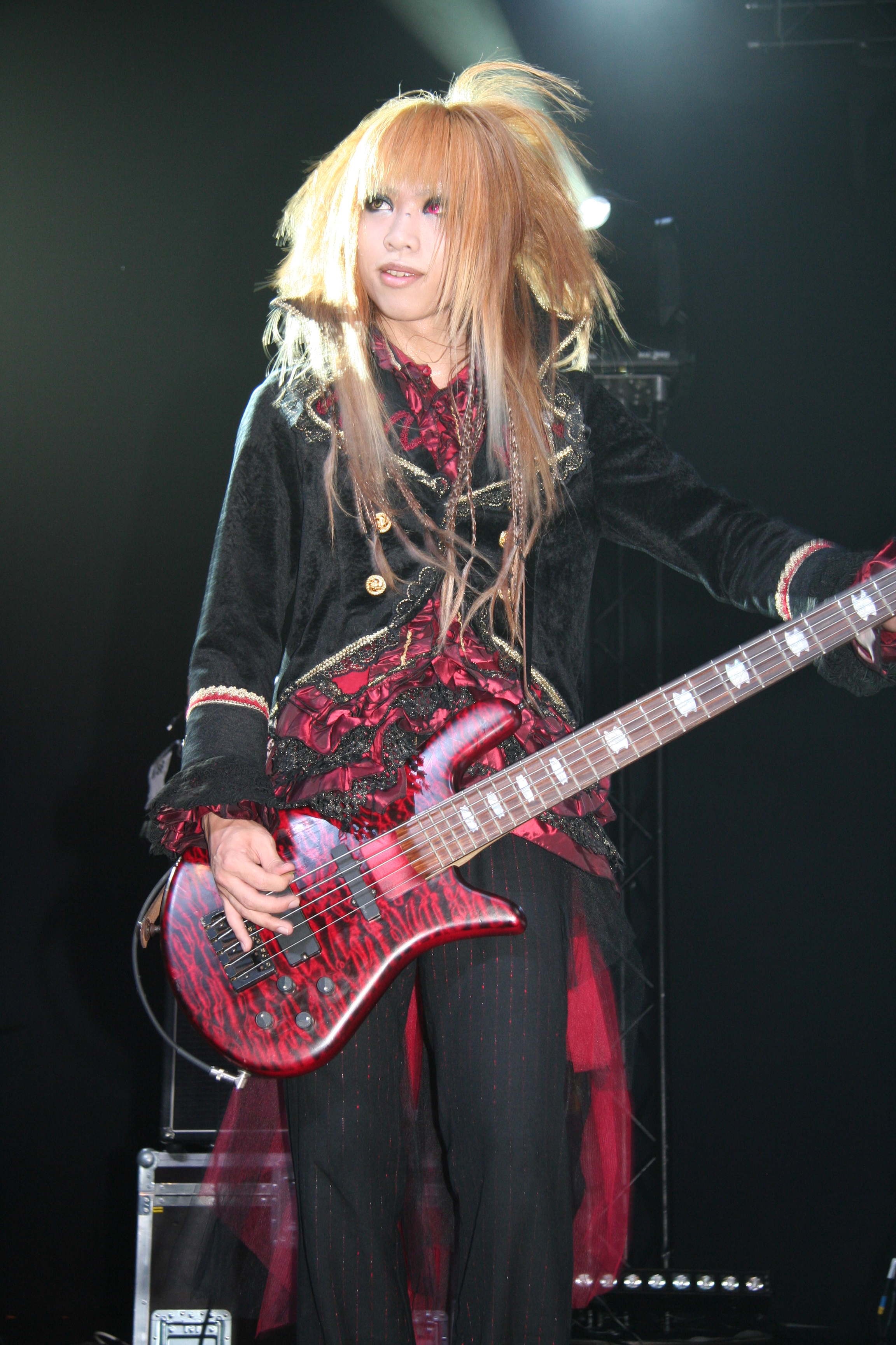 Dio - Distraught Overlord live at Japan Expo 2007 (Paris, France).